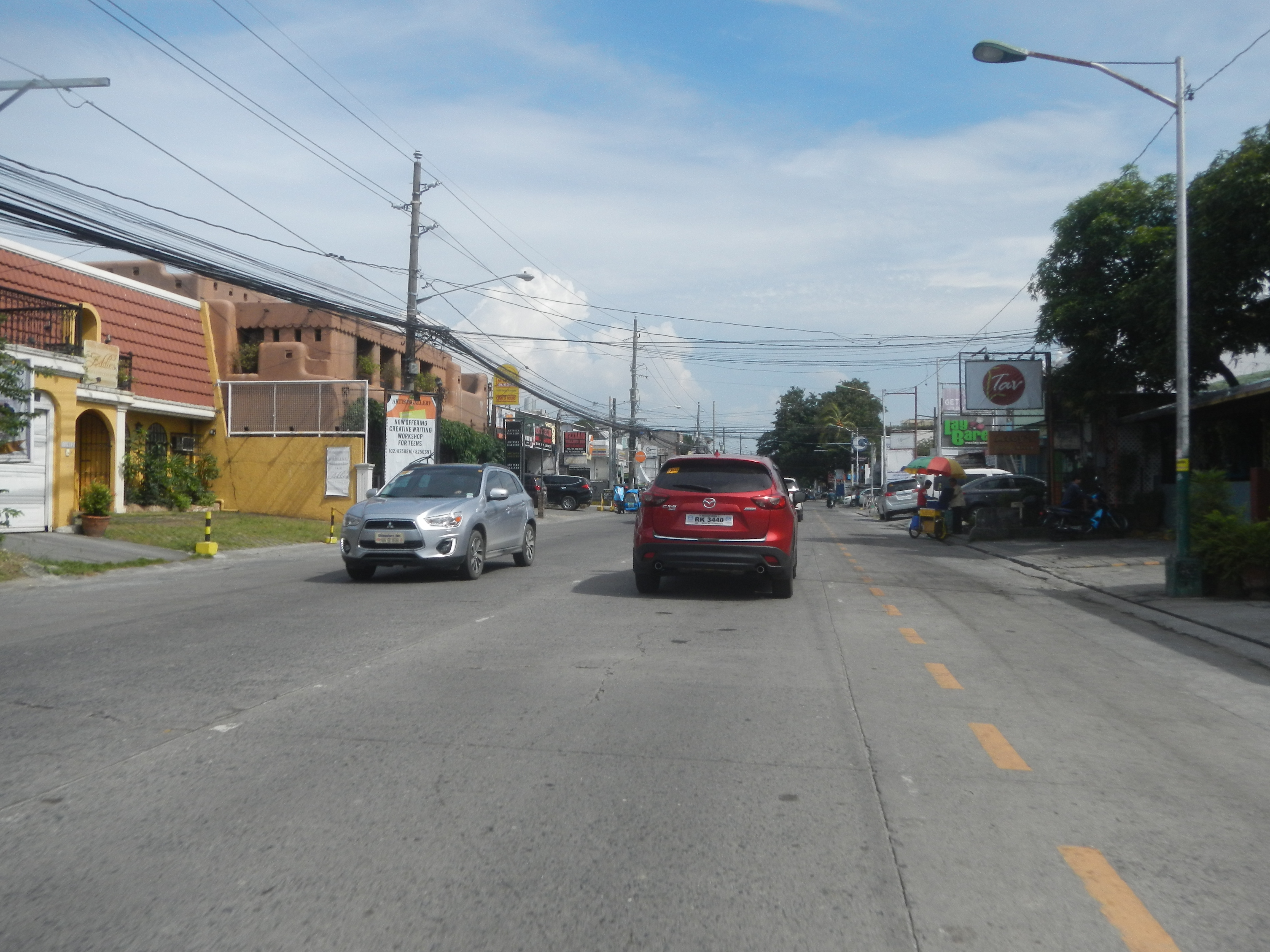 Dr. A. Santos Avenue BF Homes 14°27'5"N 121°1'46"E Legislative districts of Parañaque 1st District, Districts and barangays Barangays San Isidro, Parañaque San Isidro 14°28'1"N 121°0'40"E BF Homes Parañaque, Parañaque City (Note: Judge Florentino Floro, the owner, to repeat, Donor Florentino Floro of all these photos hereby donate gratuitously, freely and unconditionally Judge Floro all these photos to and for Wikimedia Commons, exclusively, for public use of the public domain, and again without any condition whatsoever).